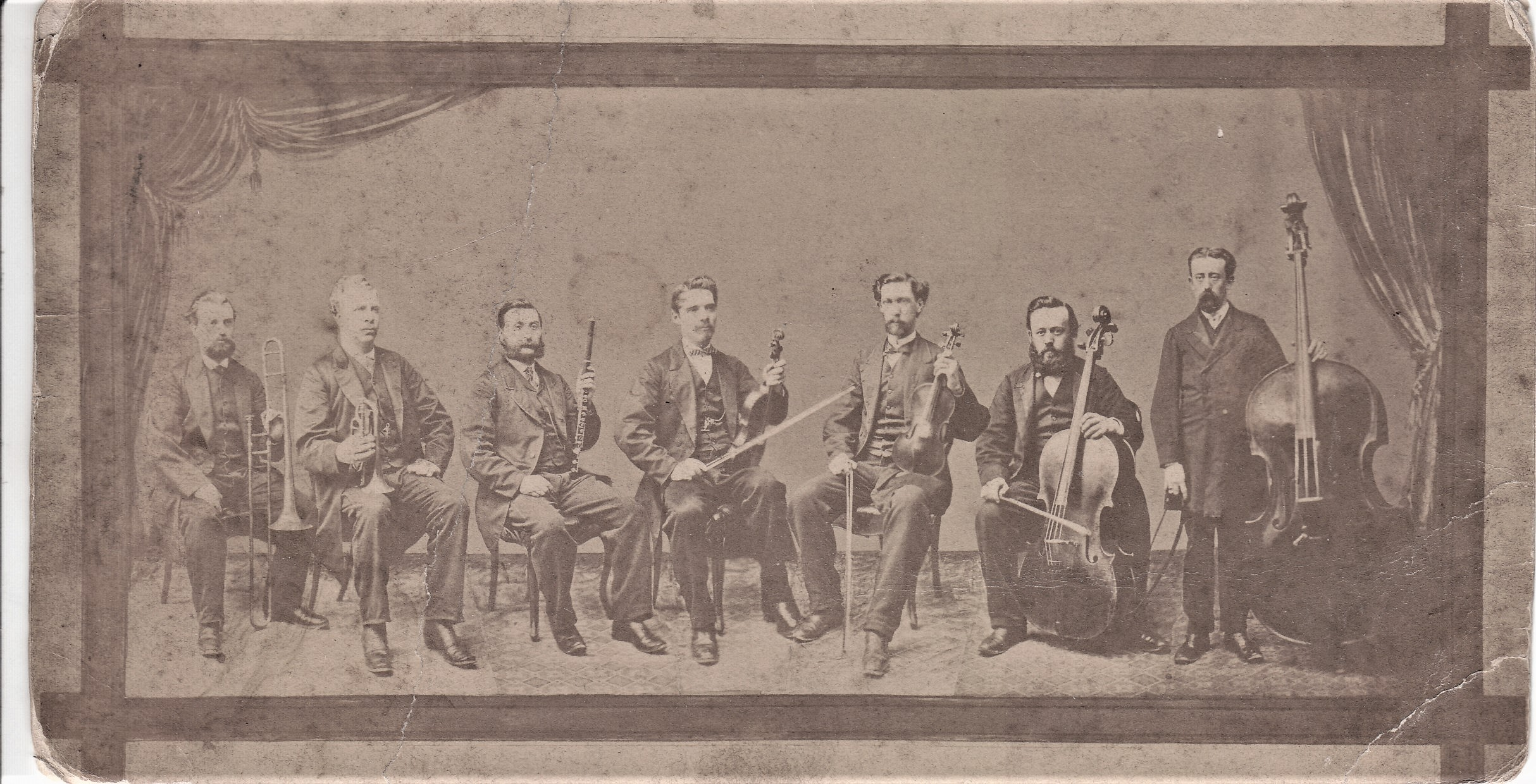 Photo of band in which Enoch Round played